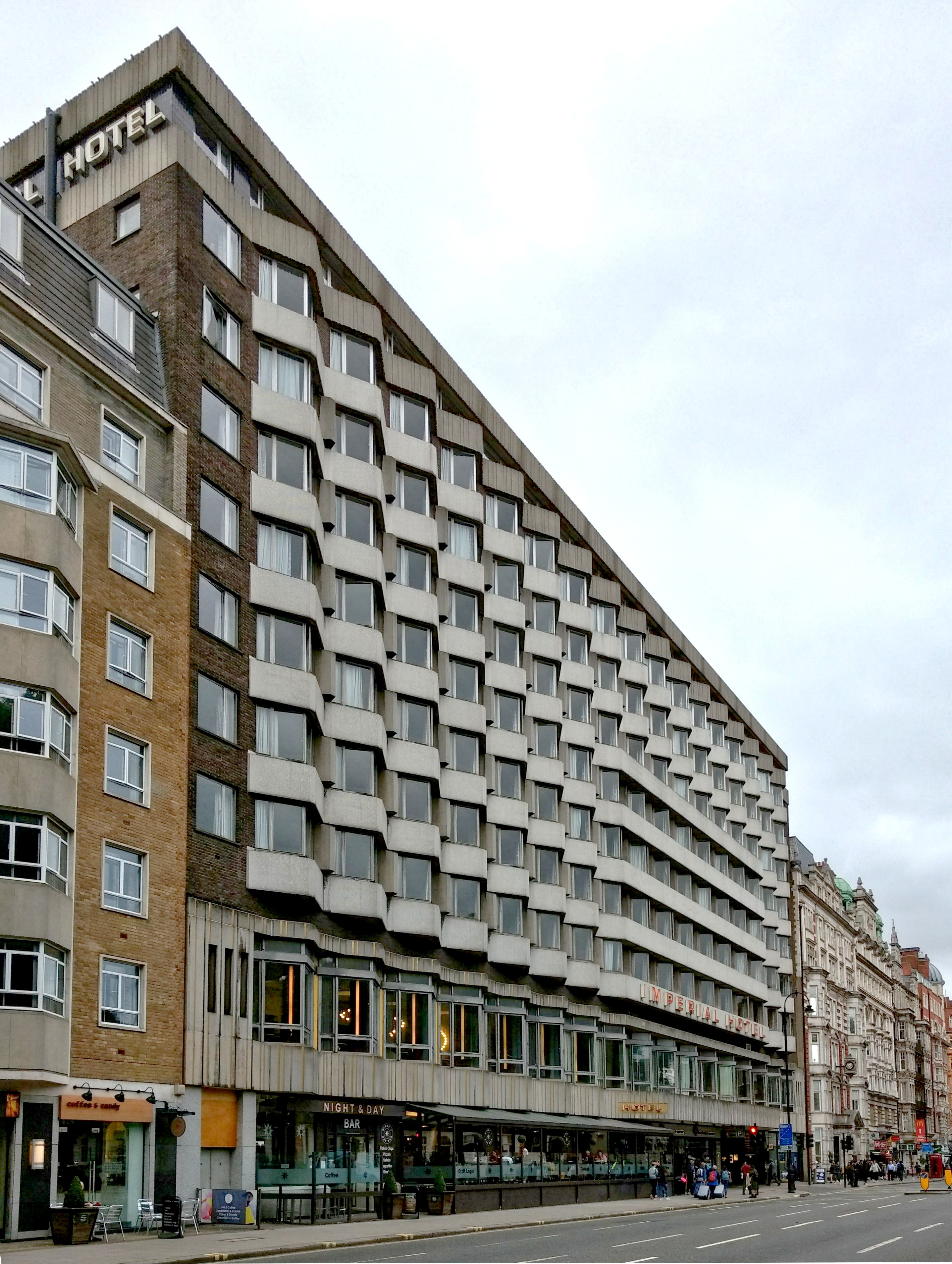 London